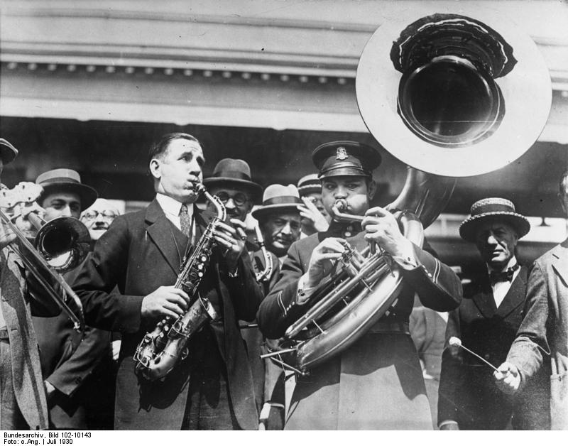 Wie man sich populär macht ! Jack Dempsey, der bekannte Box-Exweltmeister bei einem Wohltätigkeitsfest in Chicago, eine Posaune blasend. (English translation: How to become popular! Jack Dempsey, the known former boxing champion at a charity festival in Chicago, playing a trombone)